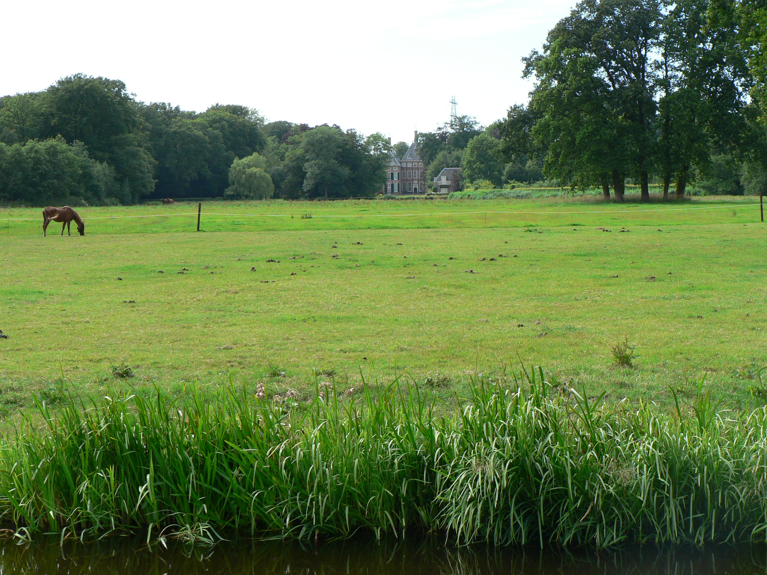 Duivenvoorde Castle in the meadows between Leidschendam and Voorschoten